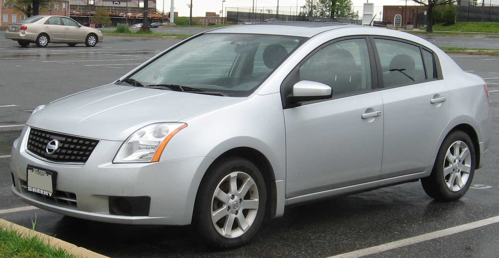 2007-2008 Nissan Sentra photographed in College Park, Maryland, USA.